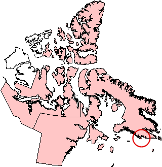 Image shows location of Big Island (Kimmirut), Nunavut, Canada